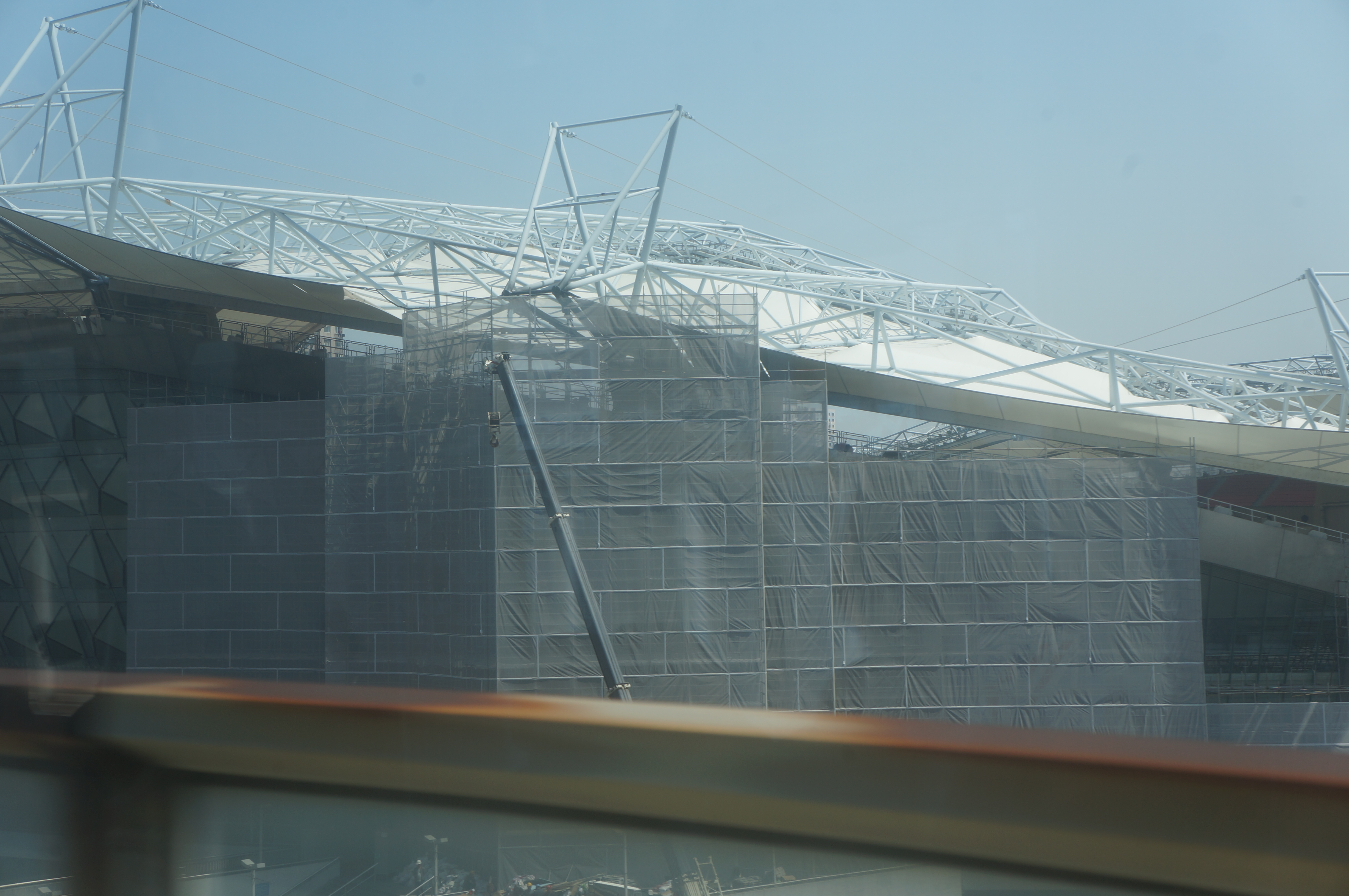 201704 Renewing process on the burnt part of facade of Hongkou Football Stadium.